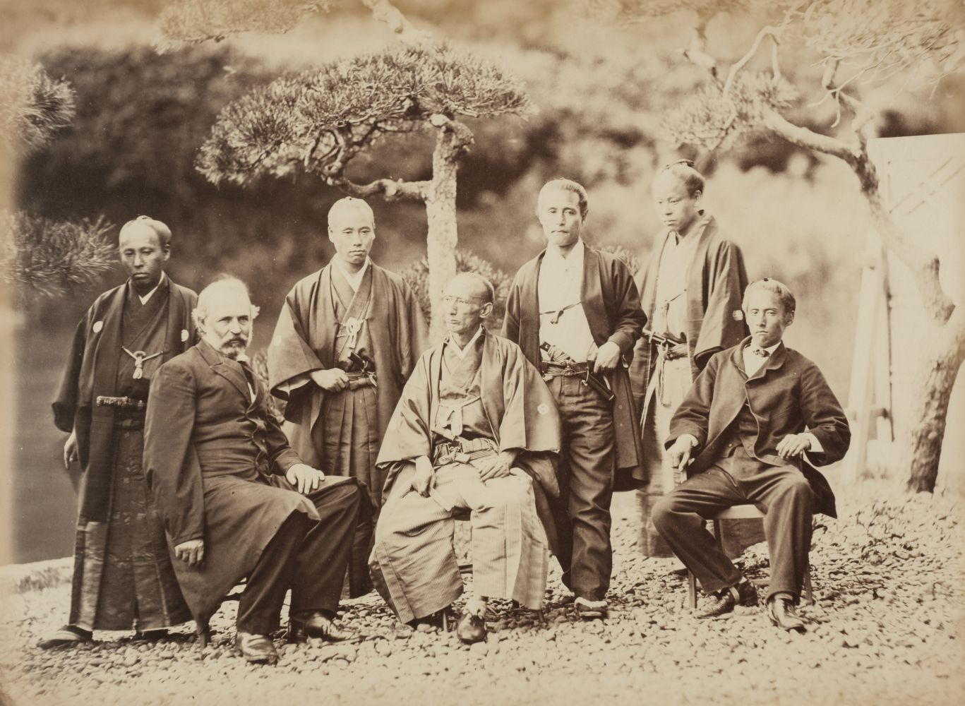 Japanese men. In the center is Inaba Masami (a daimyō of Tateyama Domain during late-Edo period Japan). The other men from the right to the left side are: Ozeki Masuhiro, Matsudaira Tarō, Katsu Kaishu, Ishikawa Jukei , Van Varuken Berg (US envoy), Ezure Akinori (foreign service).